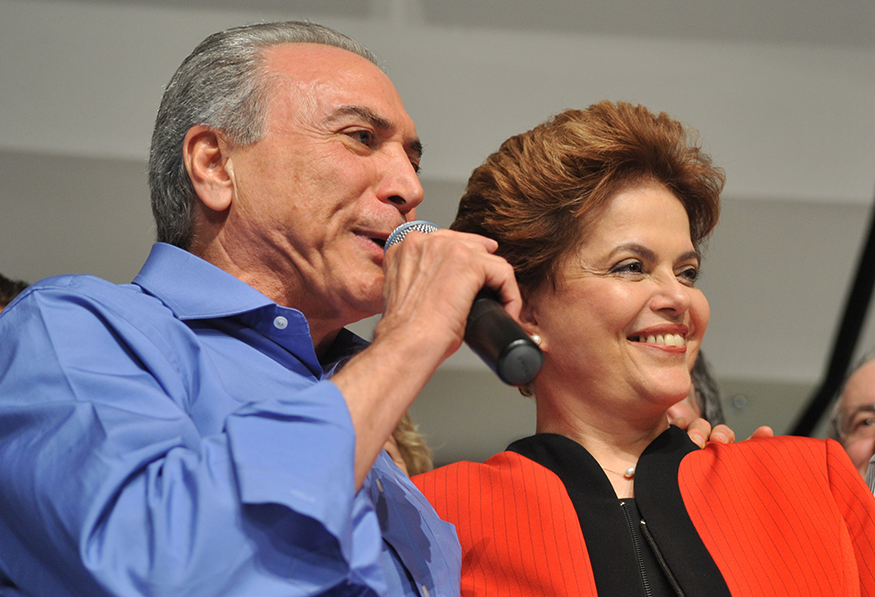 Dilma Rousseff with her running mate for the 2010 Brazilian presidential election, Michel Temer.